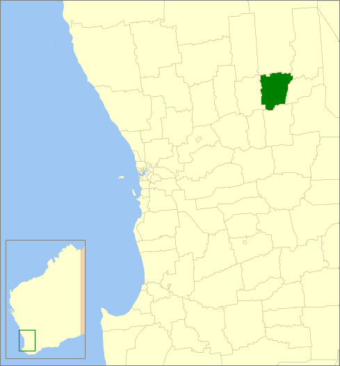 Description=Location of the Local Government Area in Western Australia